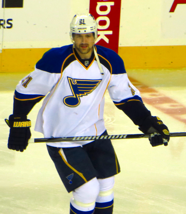 St. Louis Blues forward Patrik Berglund prior to a national Hockey League game in Calgary.